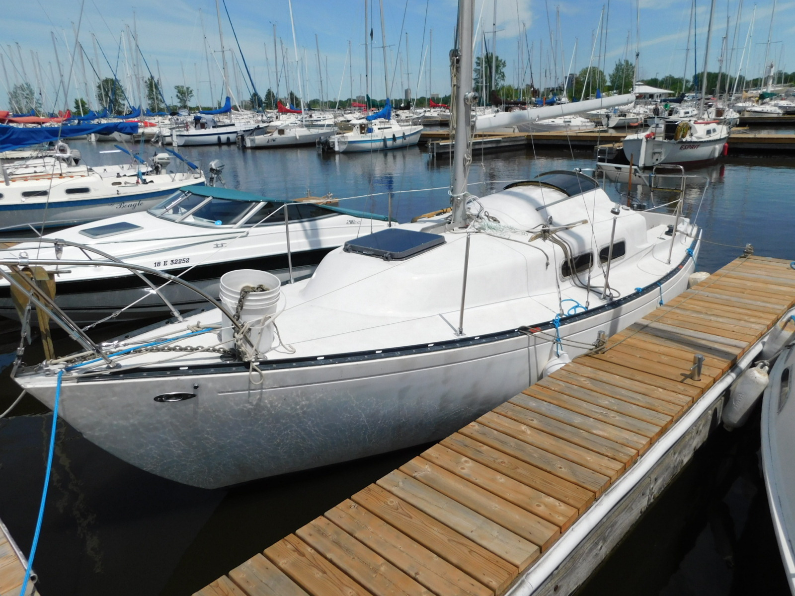 A Northern 25 sailboat named Whimsy. The white bucket on the foredeck is being used as an anchor chain locker.